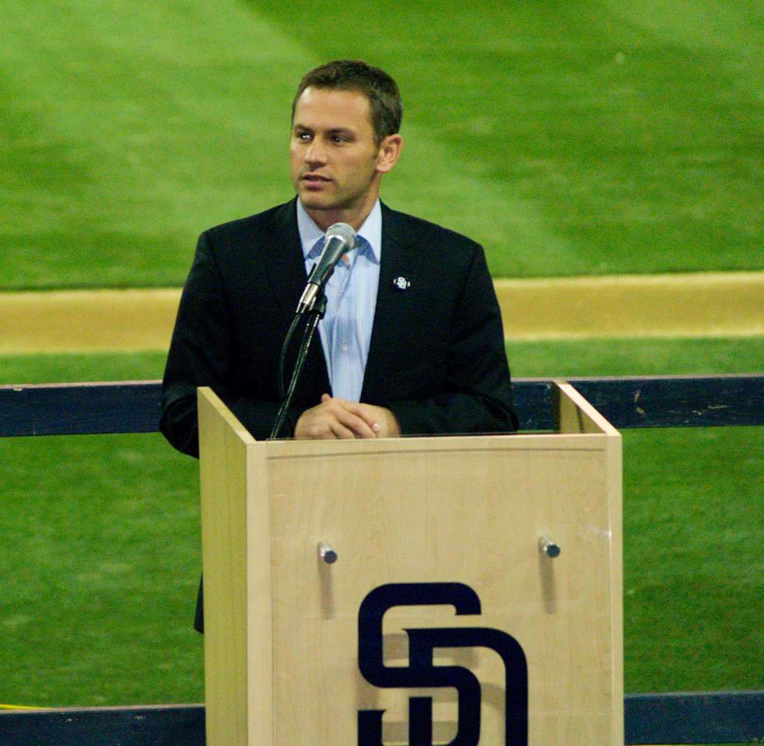 Town Hall meeting with some of the Padres front office people and the fans. We got to walk on the outfield area. Very cool!